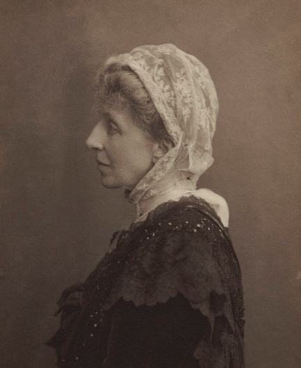 Florence Eveleen Eleanore (née Olliffe), Lady Bell from NPG 1910 ish